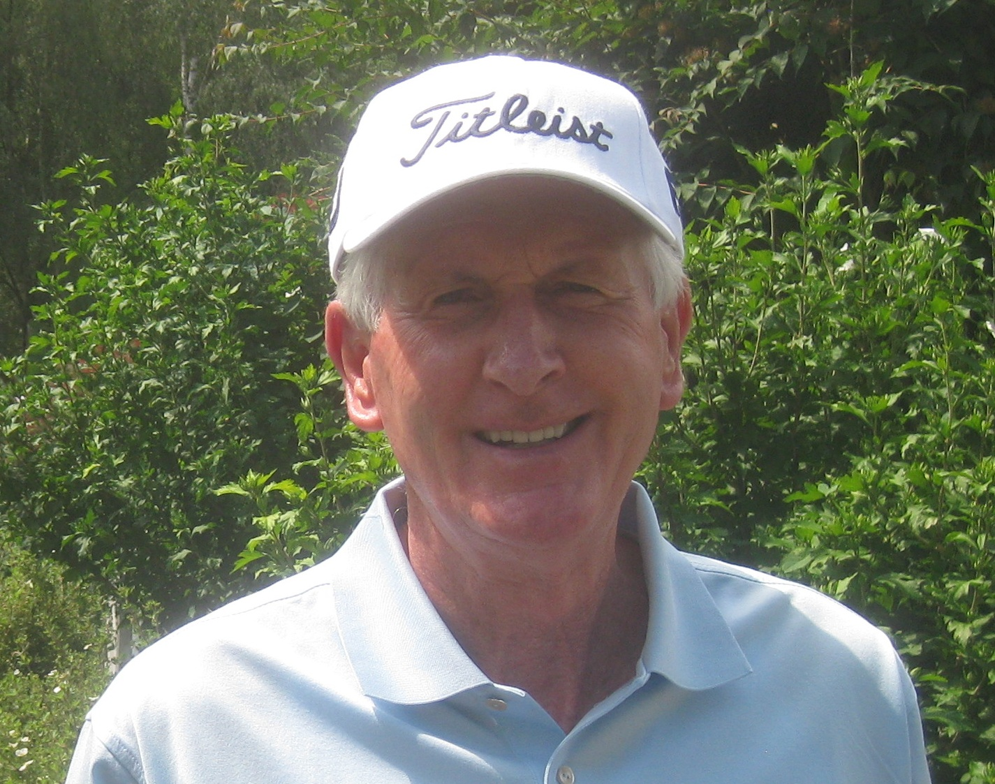 Bob Charles at the Bad Ragaz PGA Seniors Open in Switzerland